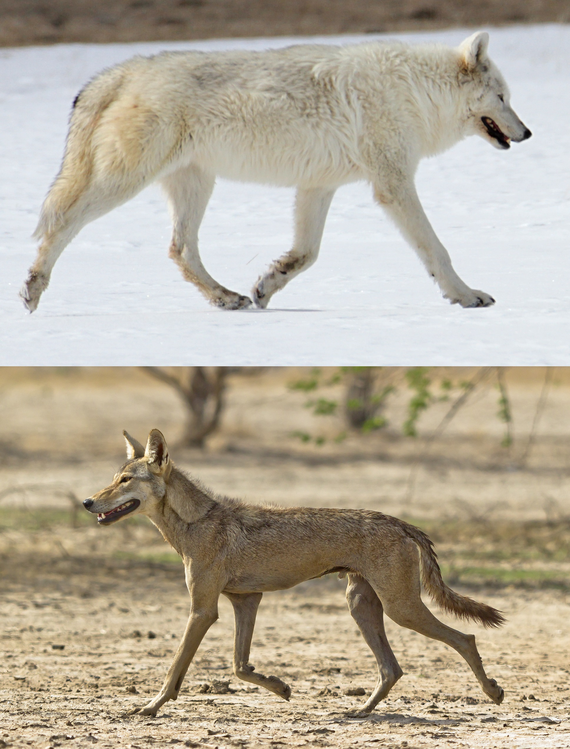 North American and Indian wolf